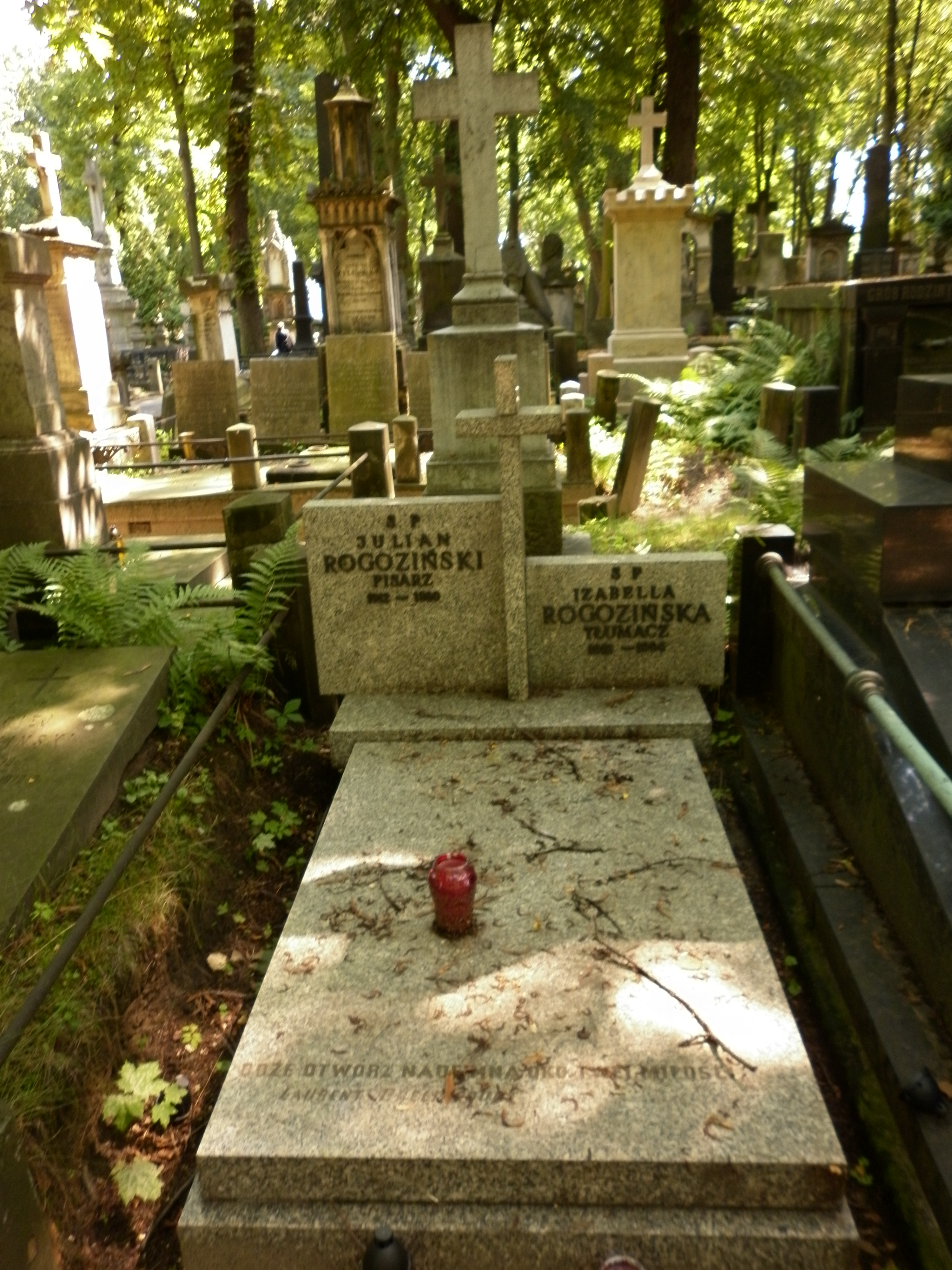 Julian and Izabela Rogozińscy tomb in Old Powązki